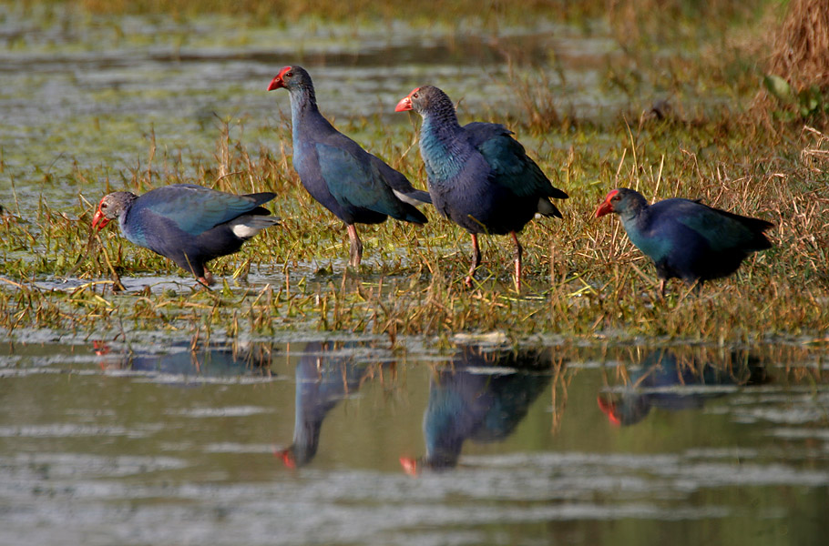 Purple Swamphen Porphyrio porphyrio at/ near Hodal, Faridabad, Haryana, India.